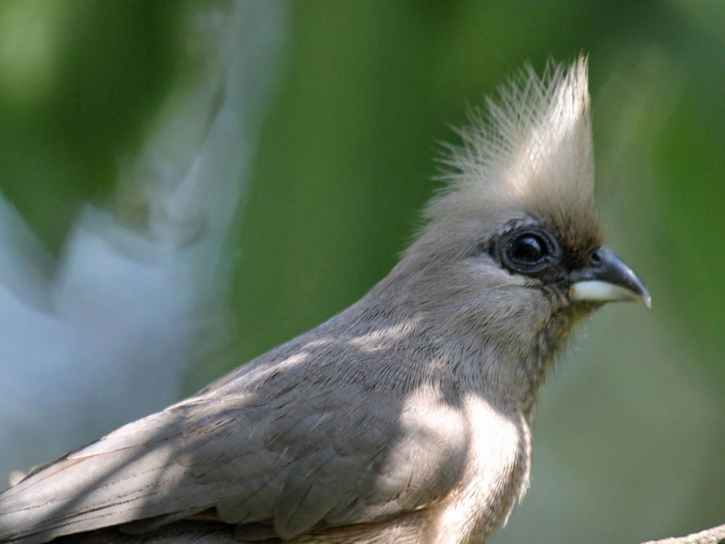 Speckled Mousebird (Colius striatus) at Birds of Eden aviary, South Africa